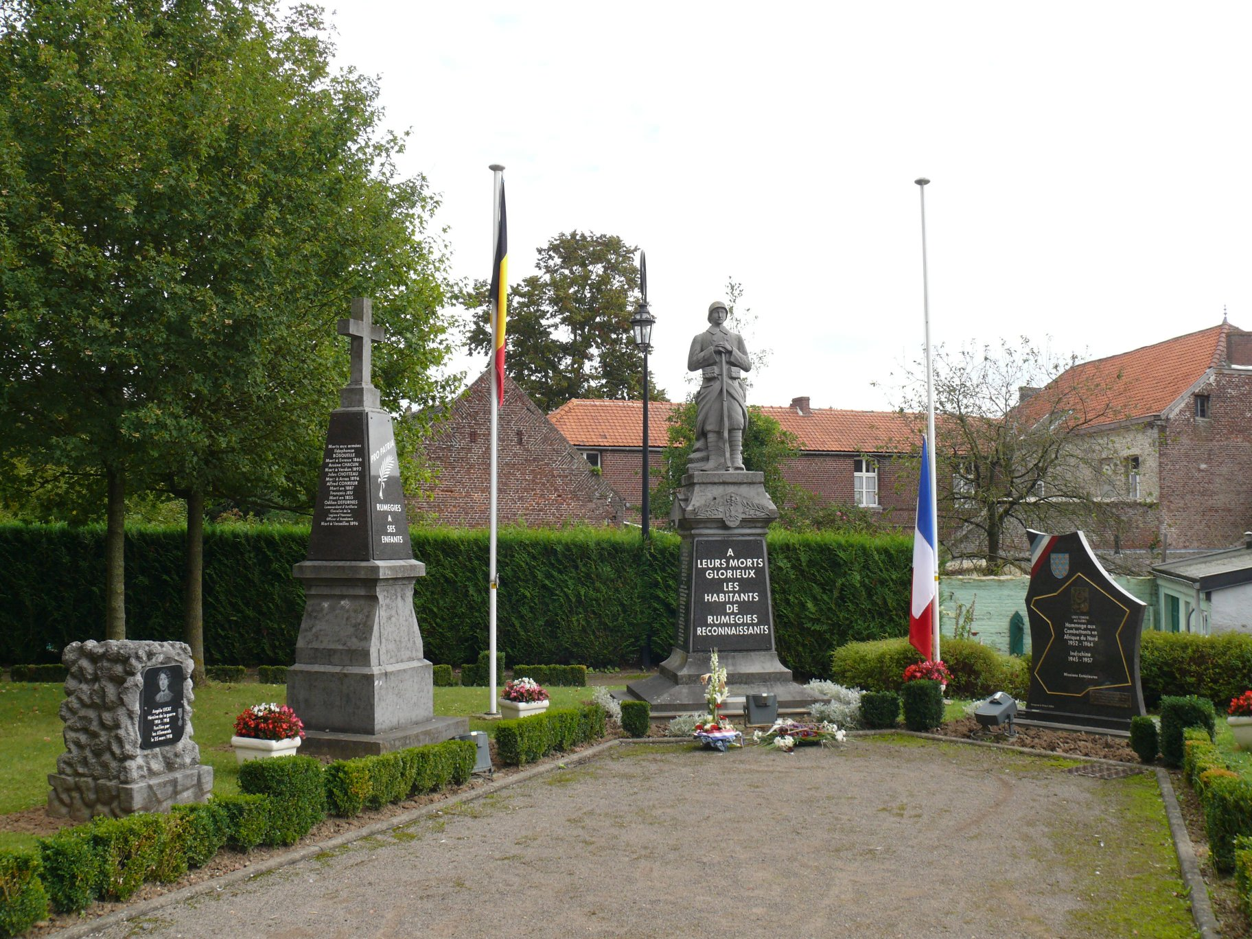 The war memorial of Rumegies (Nord, France).